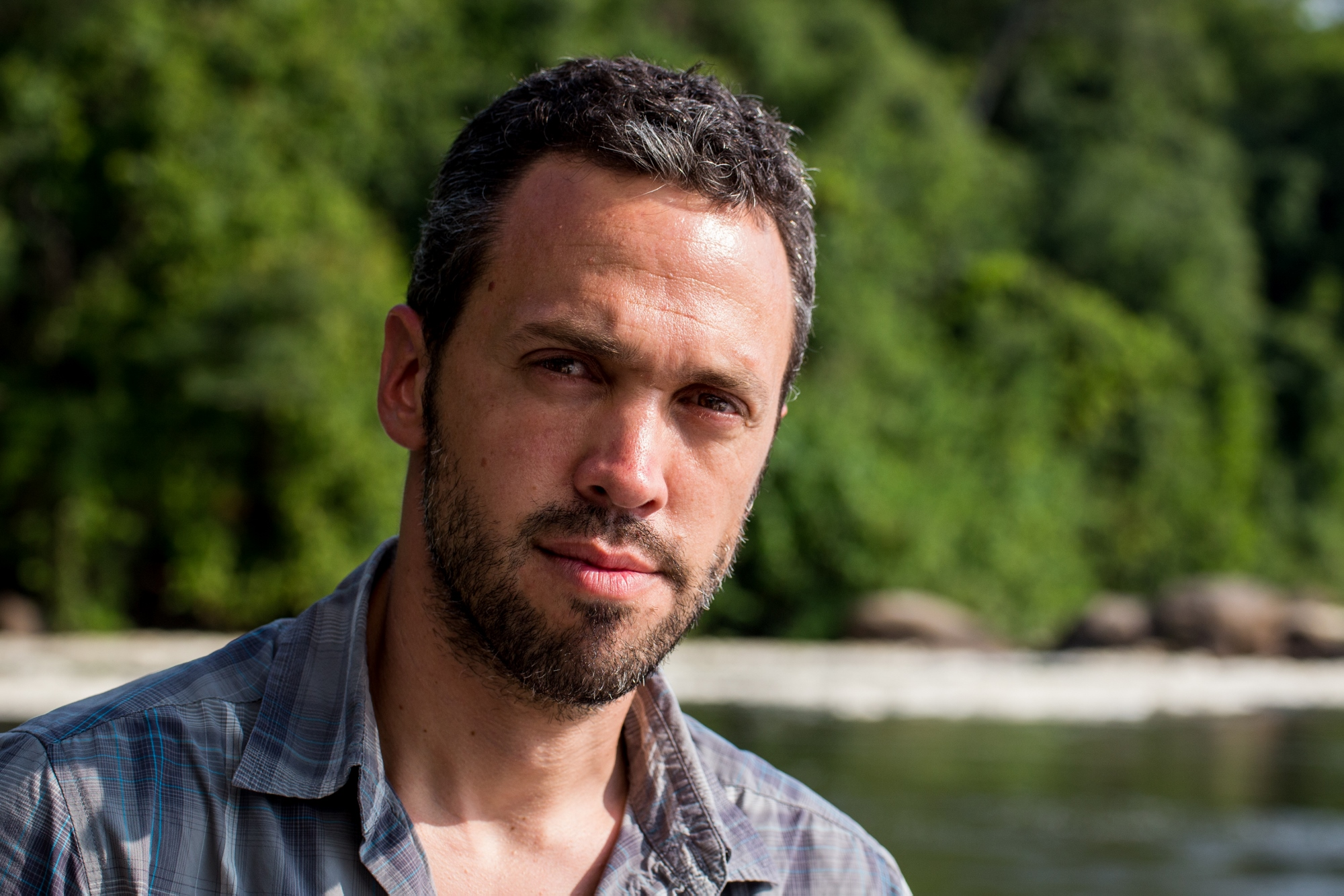 Roie Galitz in Uganda